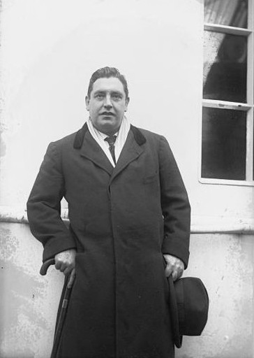 John McCormack, Irish tenor